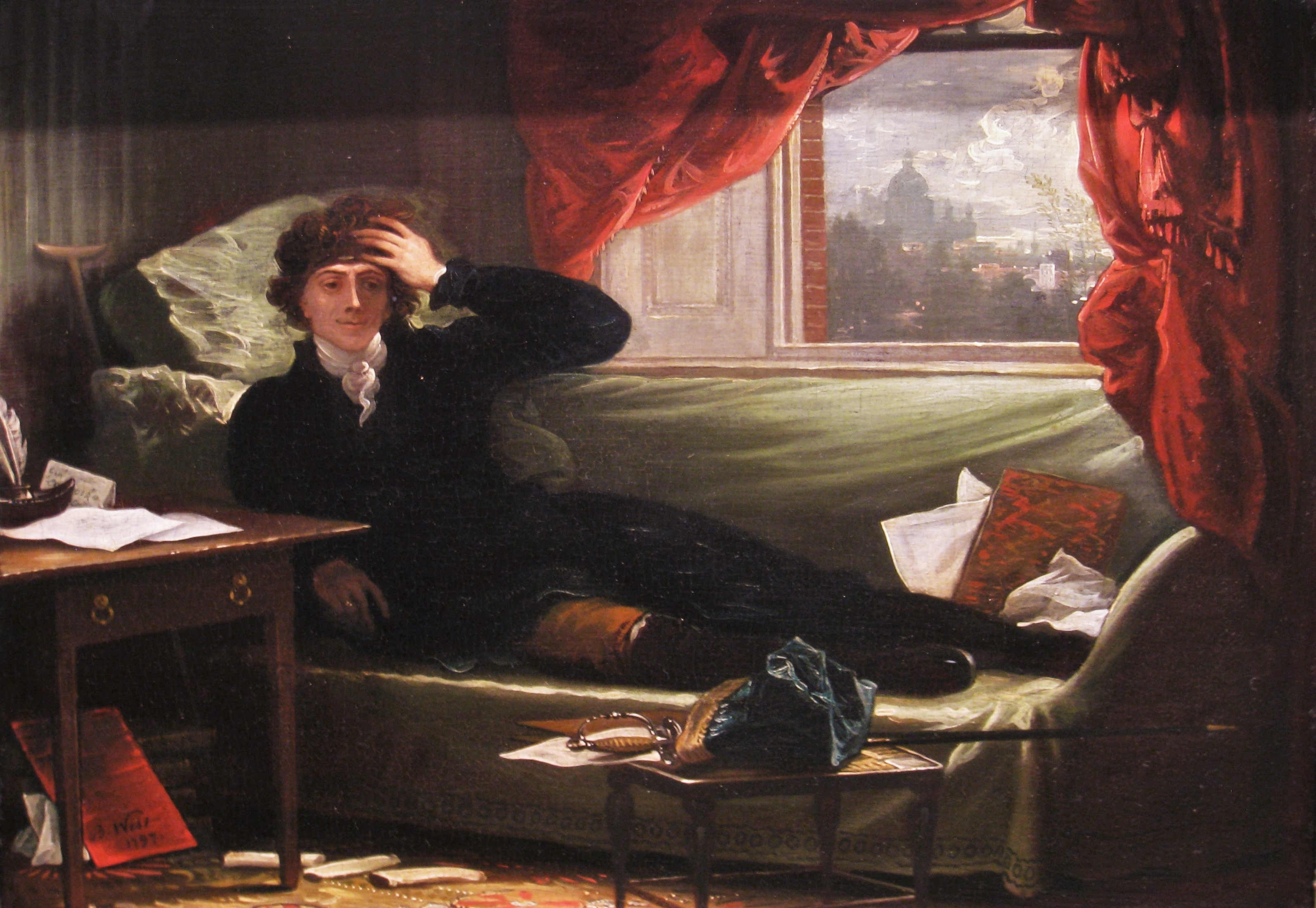 "General Thaddeus Kosciusko" (Tadeusz Kościuszko)